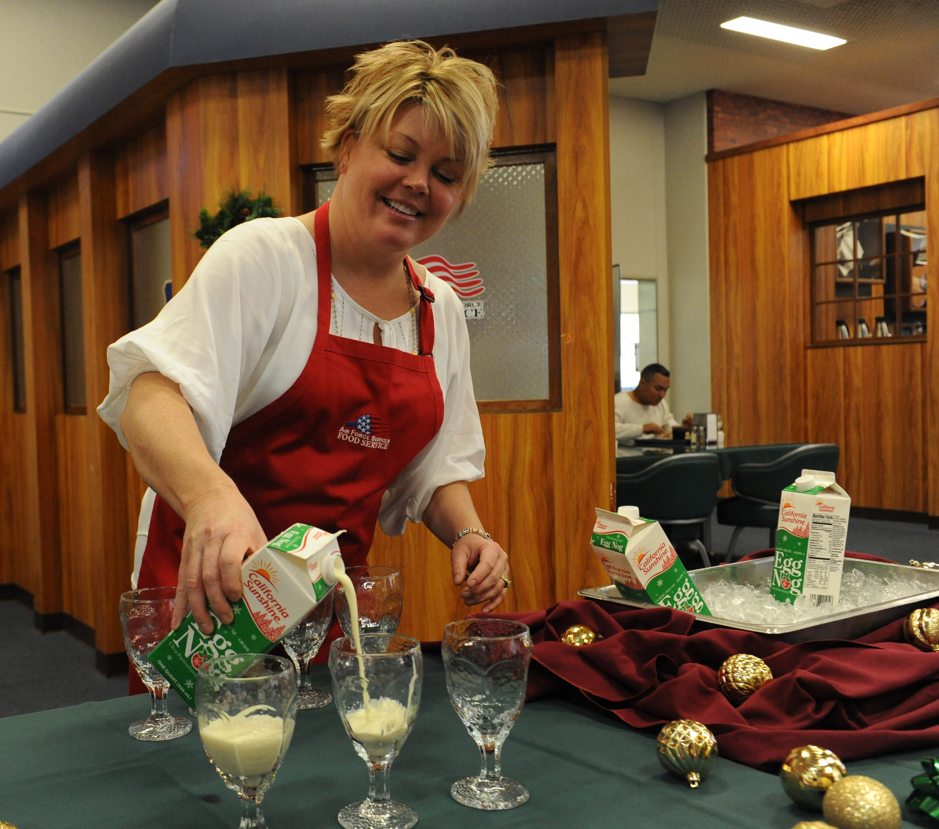 Candra Milohnic wife of U.S. Air Force Col. Peter Milohnic, 18th Operations Group commander, pours eggnog for airmen, Marines and soldiers at the Marshal Dining Facility on Kadena Air Base, Japan, Dec. 25, 2012. Approximately 30 members of Kadena's leadership and their families came to the annual Christmas Meal to give back to the airmen and wish them a happy holiday. (U.S. Air Force photo/Airman 1st Malia Jenkins) Unit: Defense Imagery Management Operations Center